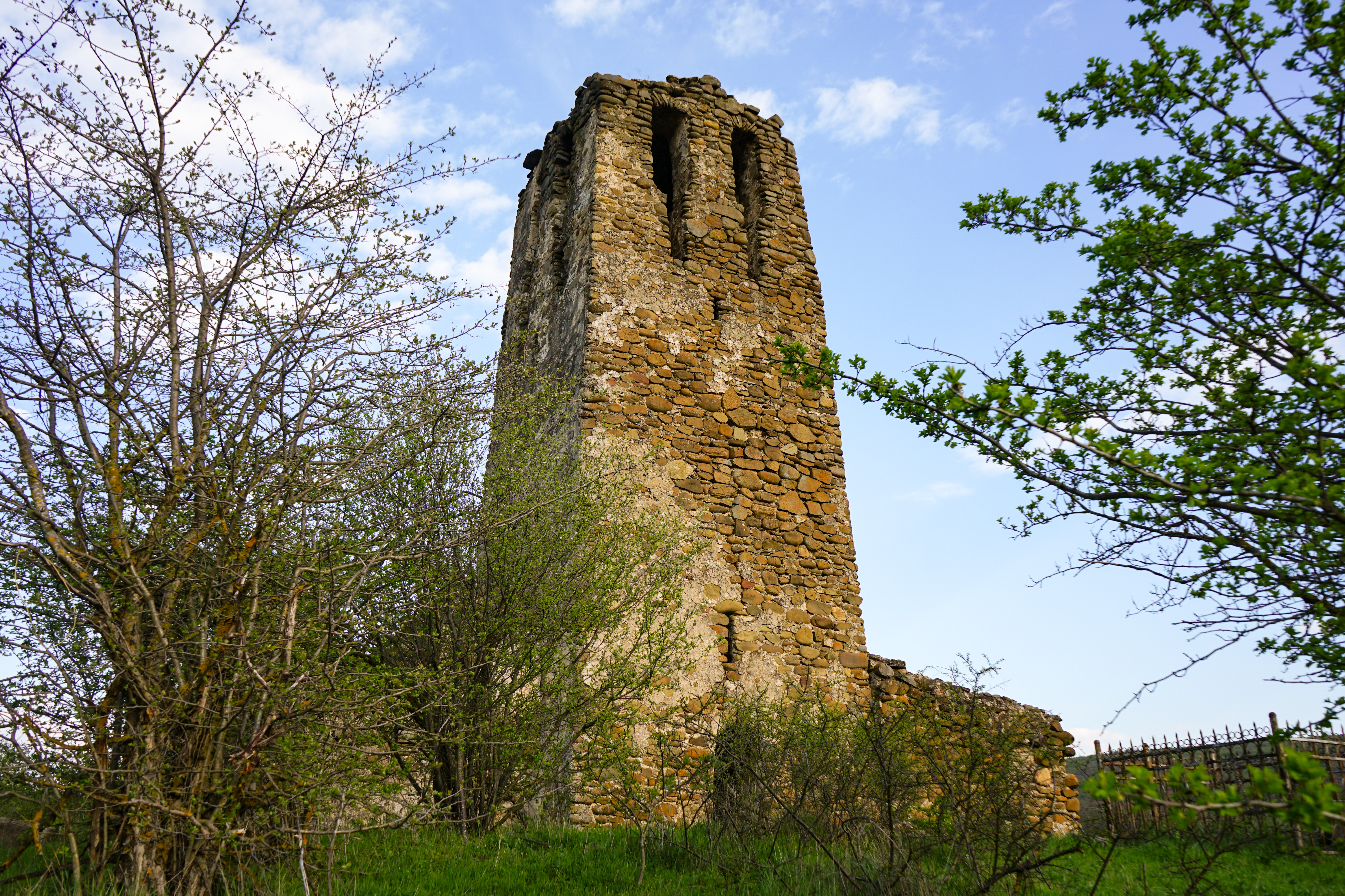 Kviratskhoveli Church complex in Iltoza, Dusheti Municipality, Georgia